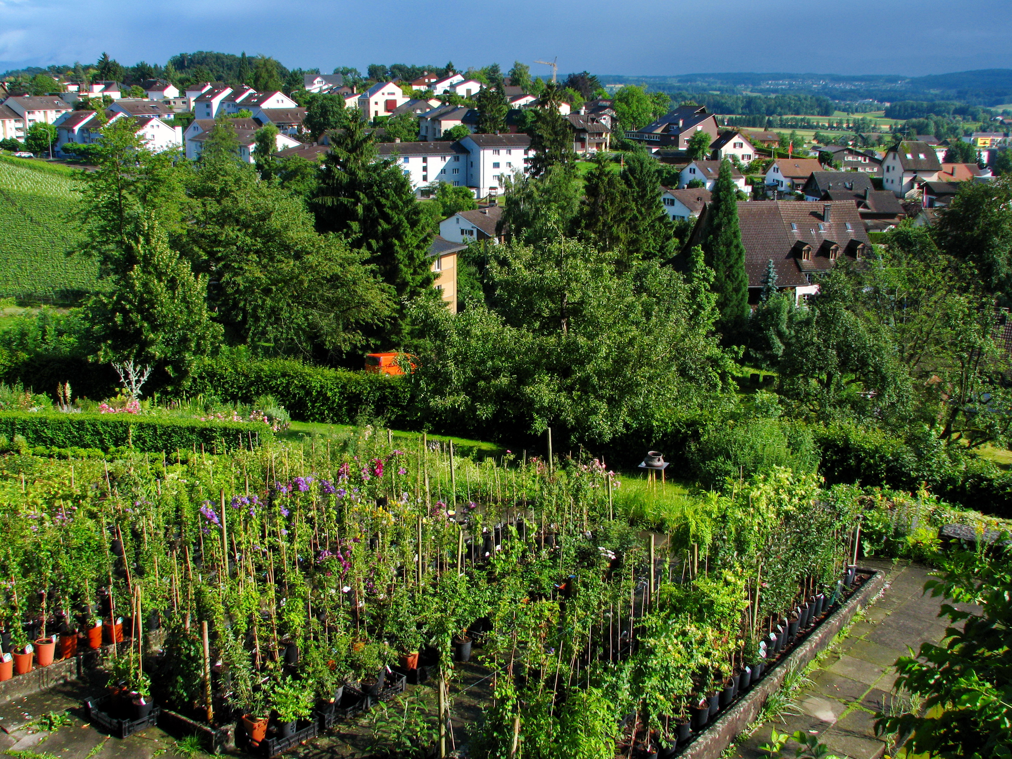 Uster (Nossikon and Riedikon) as seen from Uster castle.